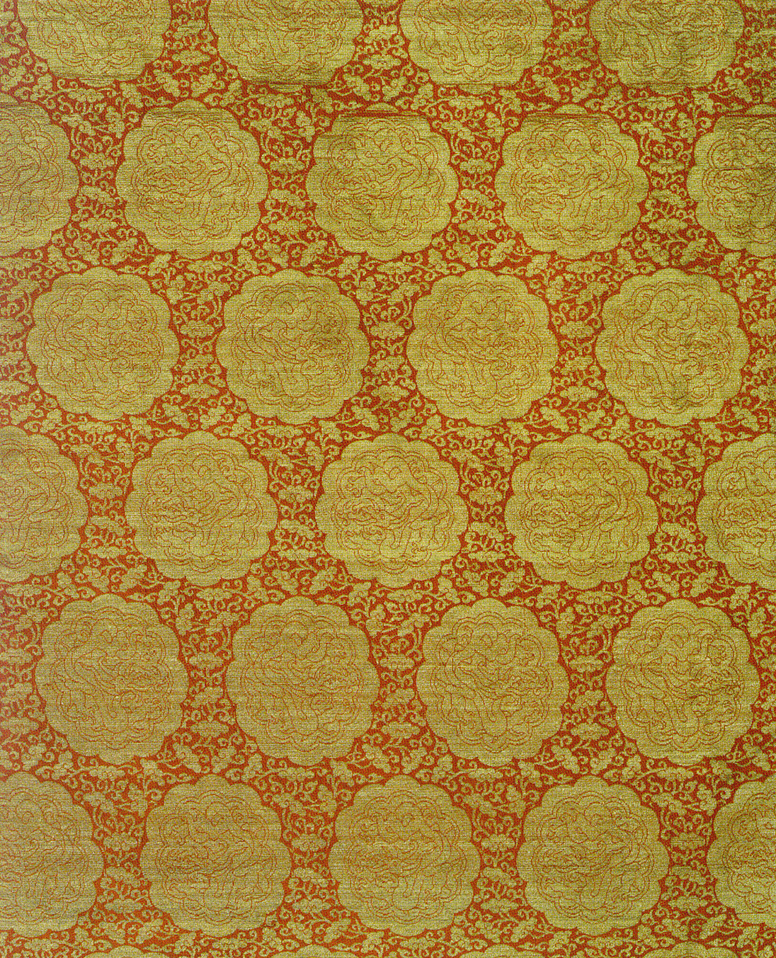 piece of silk, Eastern Iran, second half of 13th or early 14th century. Silk. "Musterrapport" 19.2-20.9:11.1 cm. Size of the whole piece (this image has been cropped by me, Yaan): 81.5 cm long, 66.5 cm wide. Museum für Kunsthandwerk, Grassimuseum, Leipzig, Inv-no. 1901.1267. The golden-colored medaillons depict one dragon each.